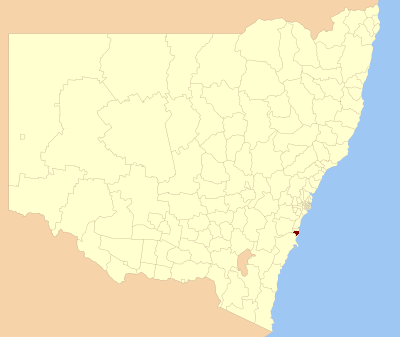 Location of Kiama LGA in New South Wales